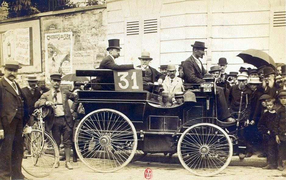 Émile Kraeutler in Peugeot 3hp at 1894 Paris-Rouen race (6th place)